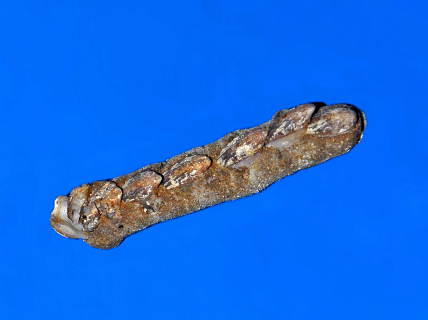 Cryptoplax iredalei. Museum specimen